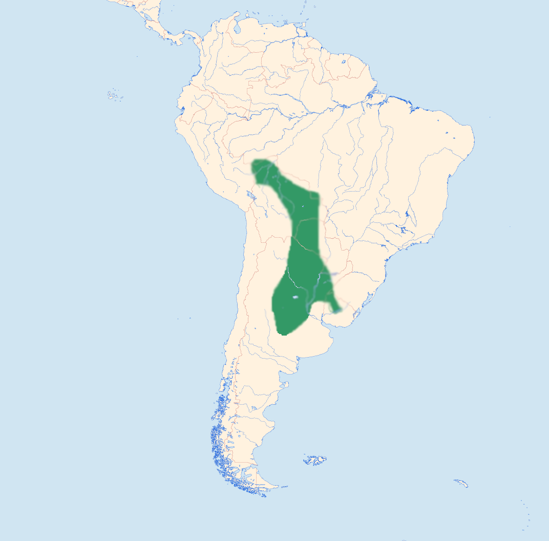 Range Map of White-fronted Woodpecker